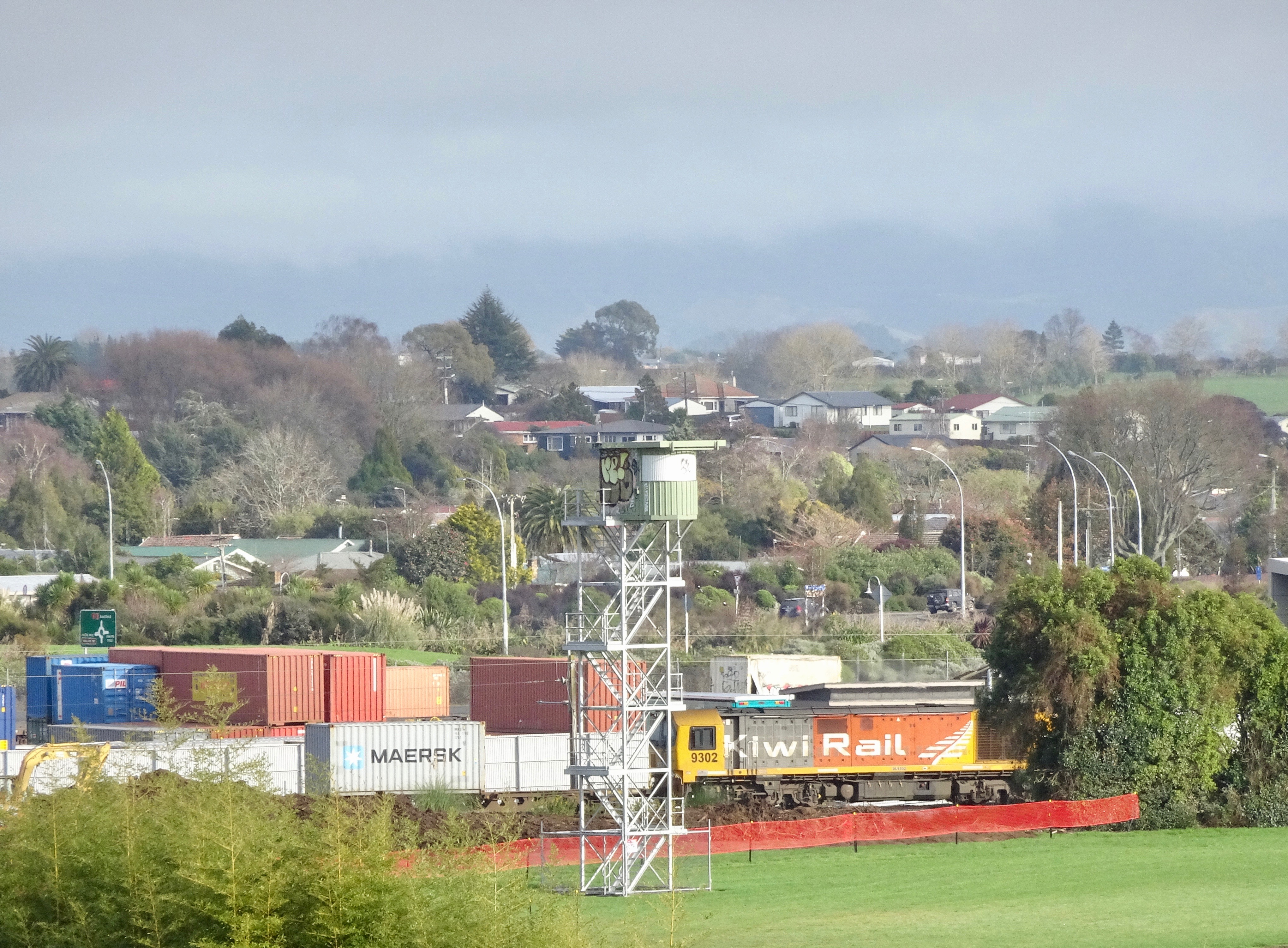 The marshalling yard has been partly replaced by Crawford St freight depot.